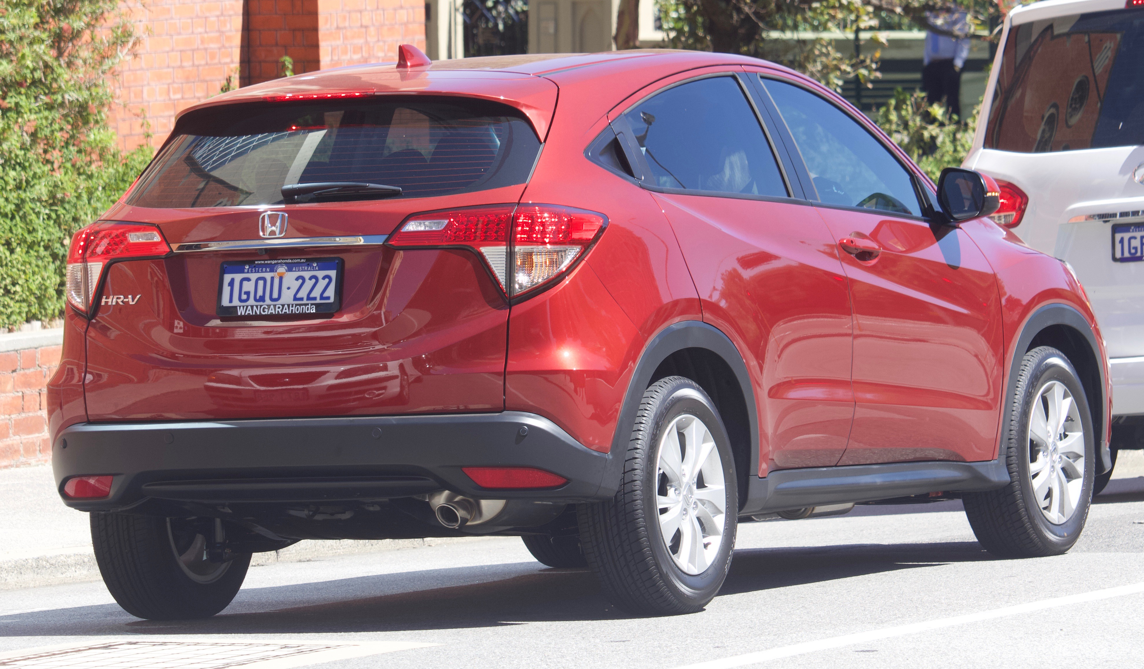 2018 Honda HR-V (MY18) VTi wagon. Photographed in Perth, Western Australia, Australia.